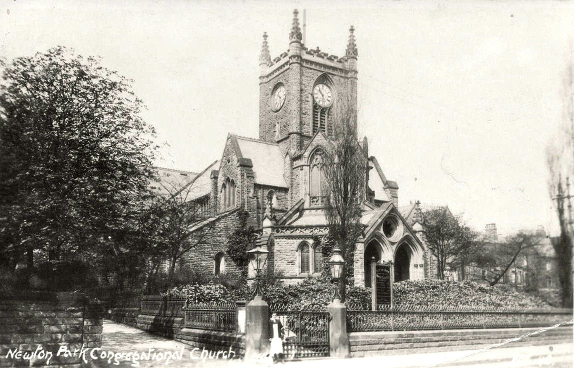 The former Newton Park Union (Congregational/Baptist) Church, Chapeltown/Potternewton, Leeds, West Yorkshire, England. The building was designed by Archibald Neill of Leeds, and opened in 1889. It was deconsecrated in 1952, and became a Royal Air Force Automobile Club, a synagogue, and lastly a Sikh temple. It is now derelict.